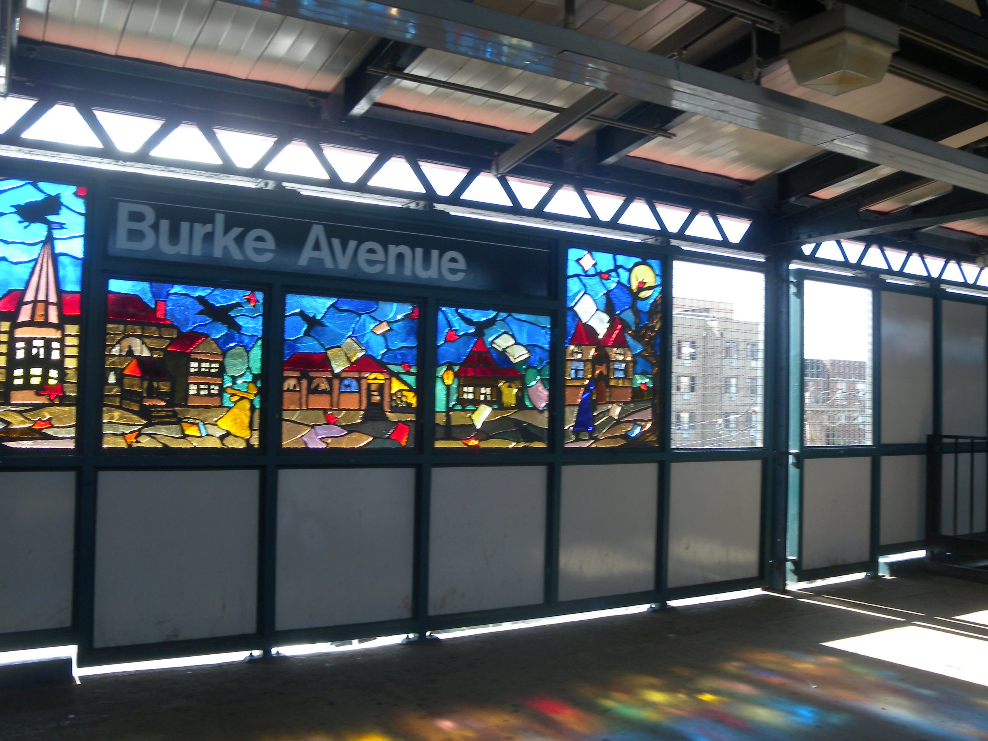 Looking west at southbound platform of Burke Avenue in Allerton on a sunny afternoon.